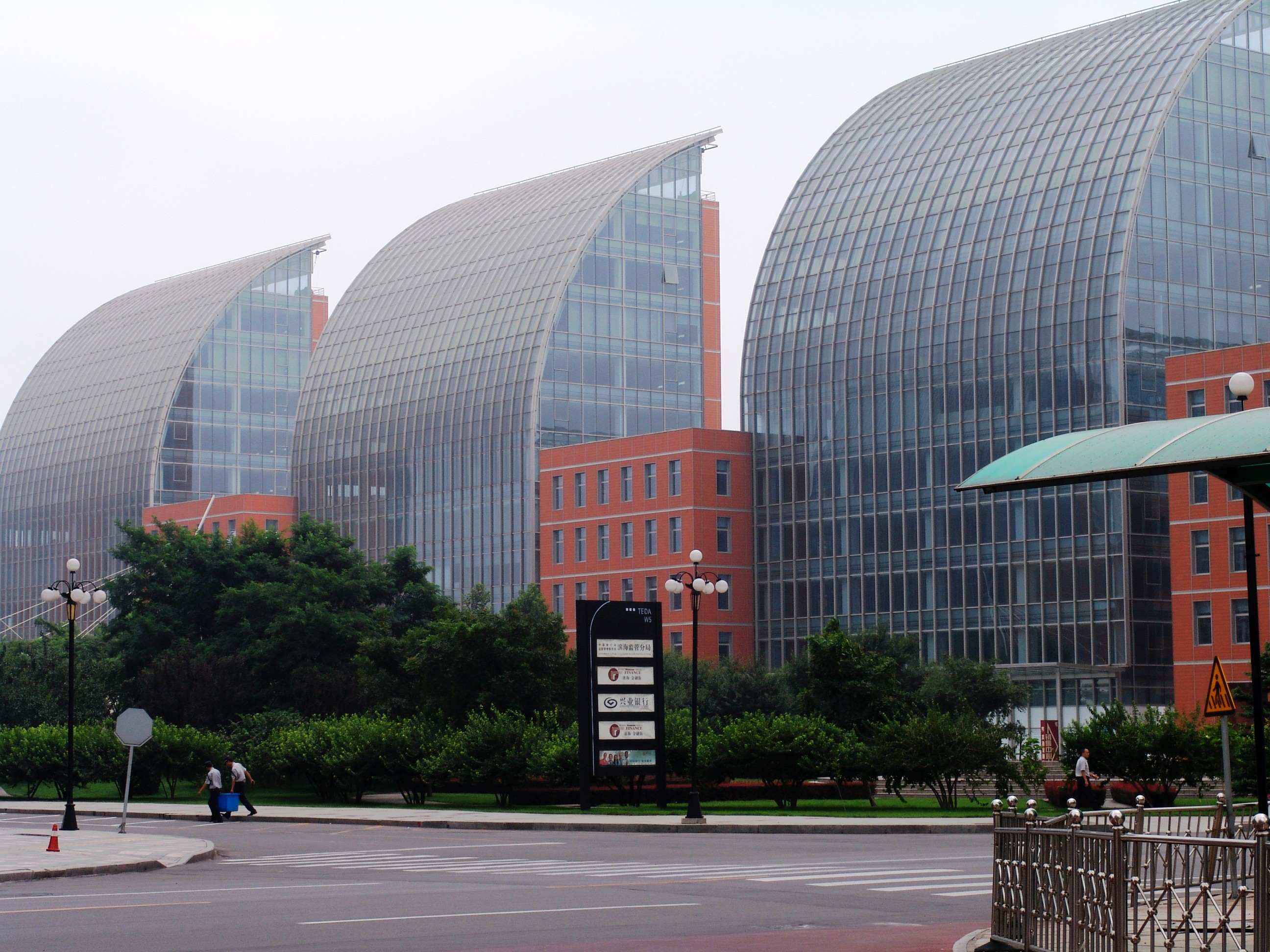 This photo was taken by Alexander Needham in July 2004 during a meeting in TEDA, Tianjin, China. This photo was published by Alexander Needham in May 2006. And Alexander Needham is the pen name of the author. Alexander Needham is the first editor of this page. Contents 1 Permission 2 Summary 2.1 Licensing 2.2 Original upload log Permission You can use this photo freely in any topic on TEDA, Tianjin, Jingjintang Delta, China or the Far East. The uses of this picture are personally allowed by its owner, Alexander Needham. Please DO NOT delete this picture from this page by yourself without informing the editor, Alexander Needham. When you use this picture in the other places, please remember to mention its owner Alexander Needham. For any question, please contact with: Summary Modern buildings in Tianjin Economic-Technological Development Area (TEDA), Tianjin, China